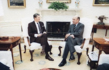 Harry W. Shlaudeman visits with Ronald Reagan in the Oval Office.